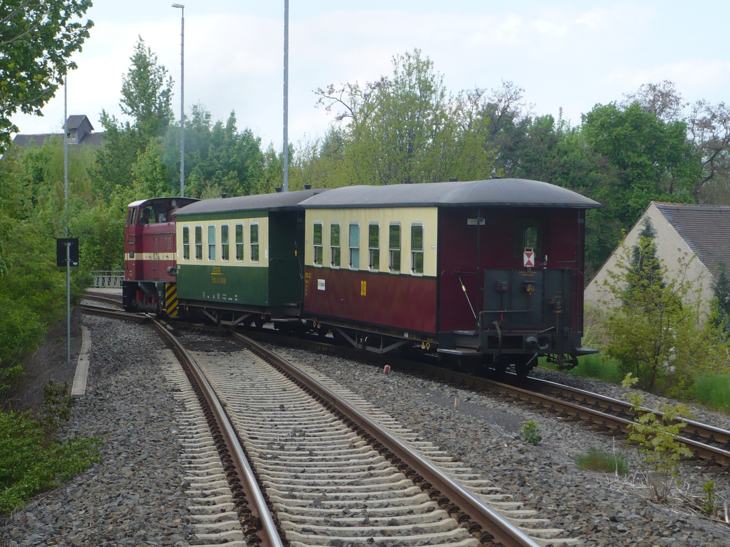 Level junction of standard gauge line Zittau - Liberec with narrow gauge line Zittau - Oybin/Jonsdorf. Train no 705 from Jonsdorf to Zittau with diesel locomotive 199 013.